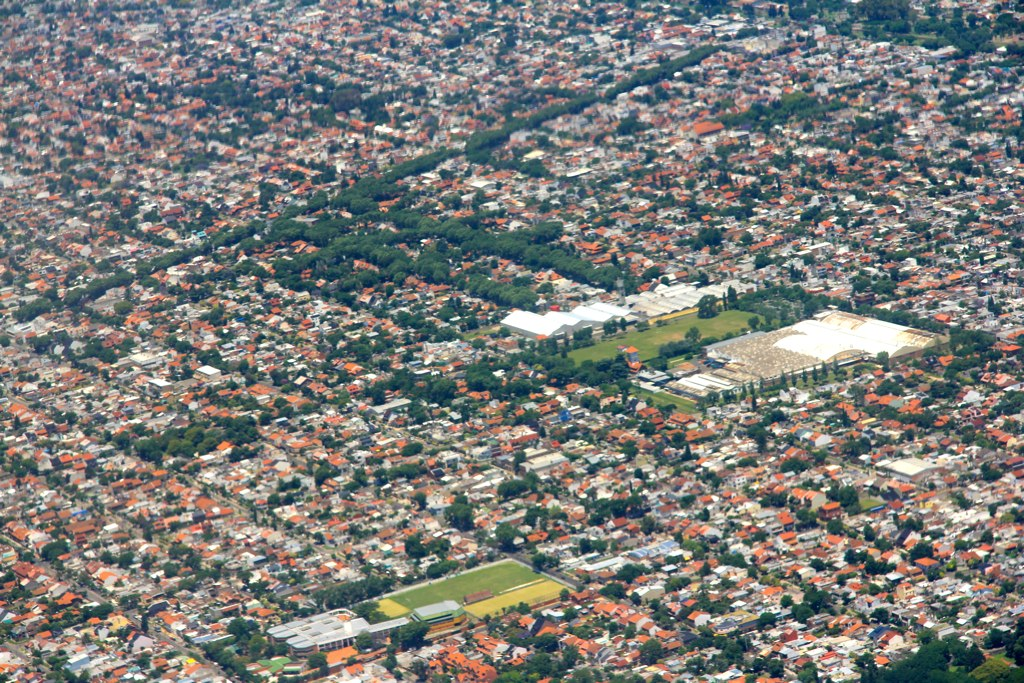 Aerial view of Villa Adelina, a northern suburb of Buenos Aires.